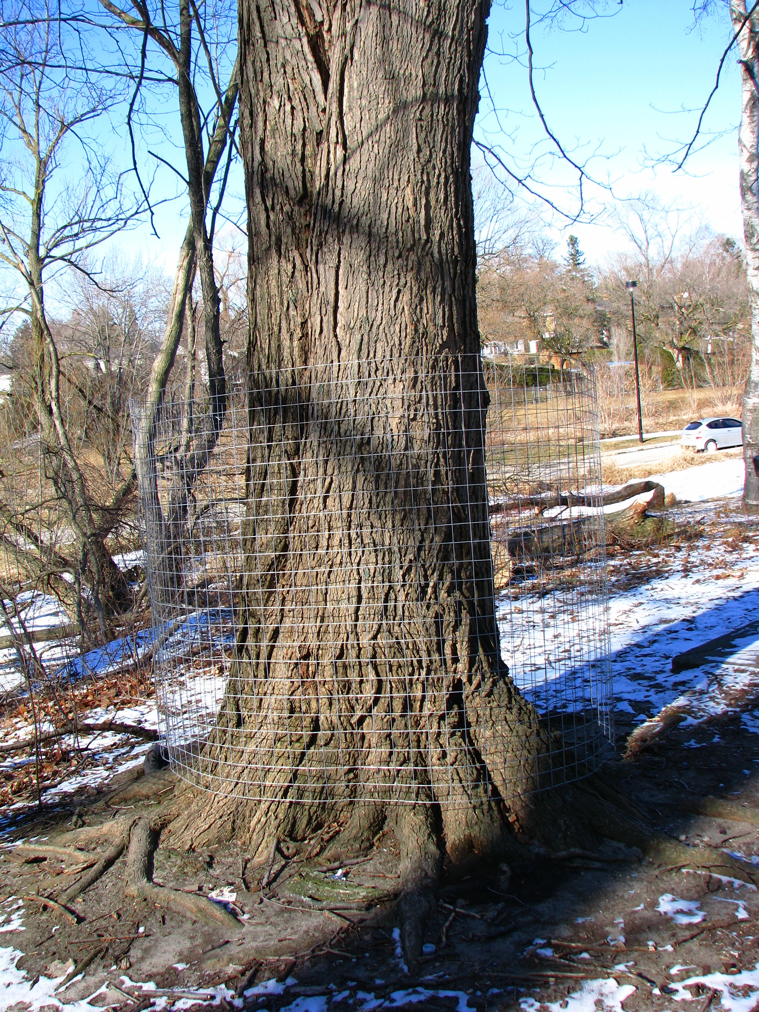 This is absolutely genius! (sarcasm)